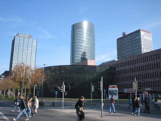 Dortmund Skyline